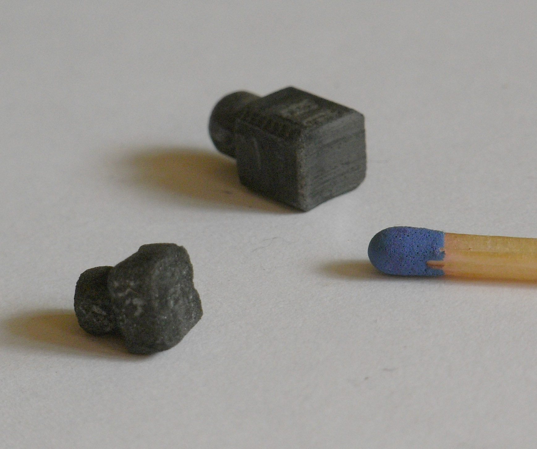 worn electric brushes of a drill